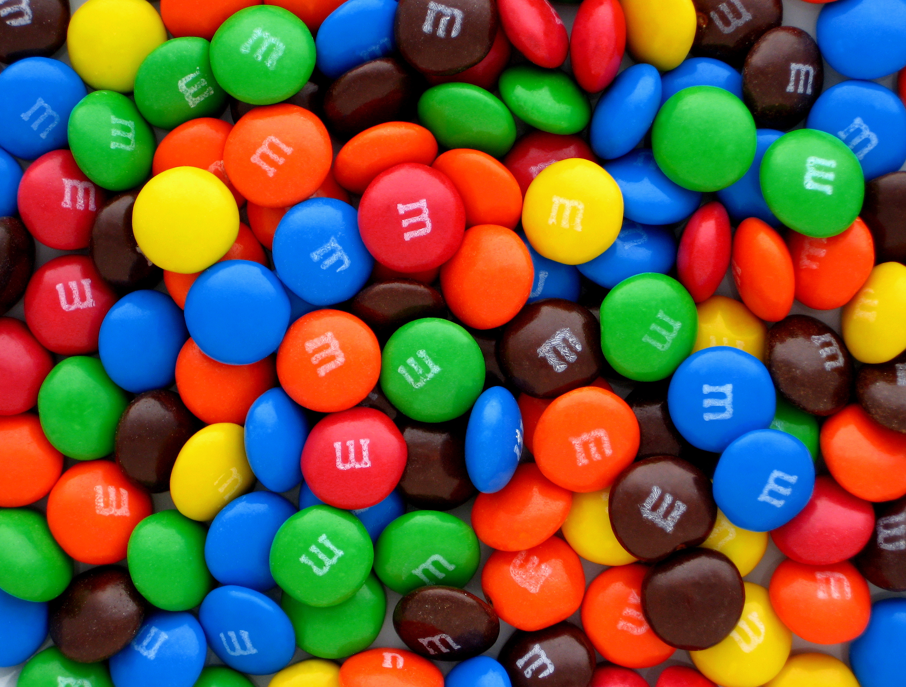 A pile of plain M&M's candies.